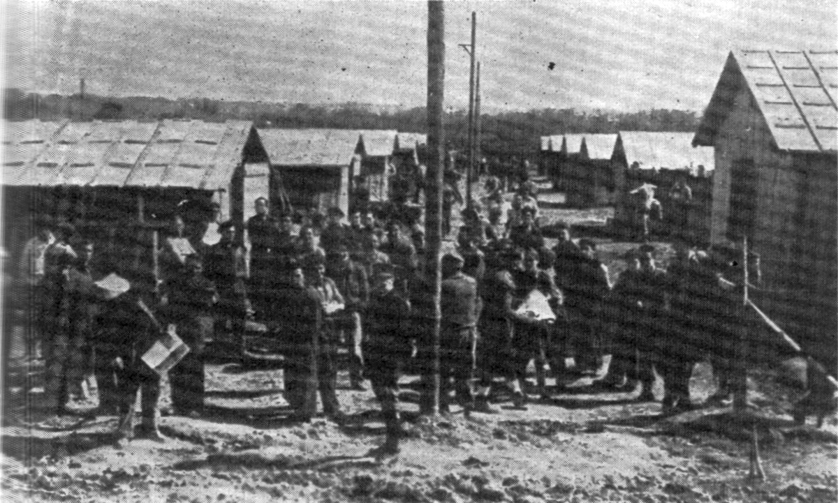 Jugoslovenski borci iz Španije internirani u logoru Girs u Francuskoj.